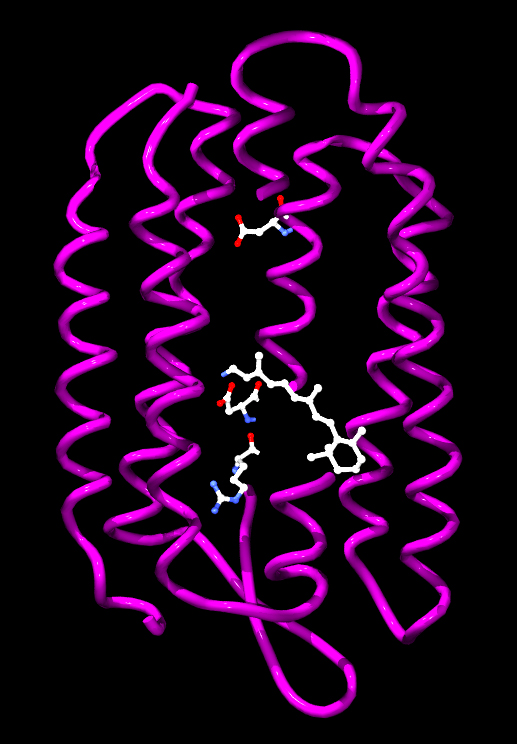 Cutaway view of bacteriorhodopsin from Halobacterium salinarum, with the retinol cofactor and residues involved in proton transfer (Arg82, Asp85, Asp96) shown as ball and stick models.